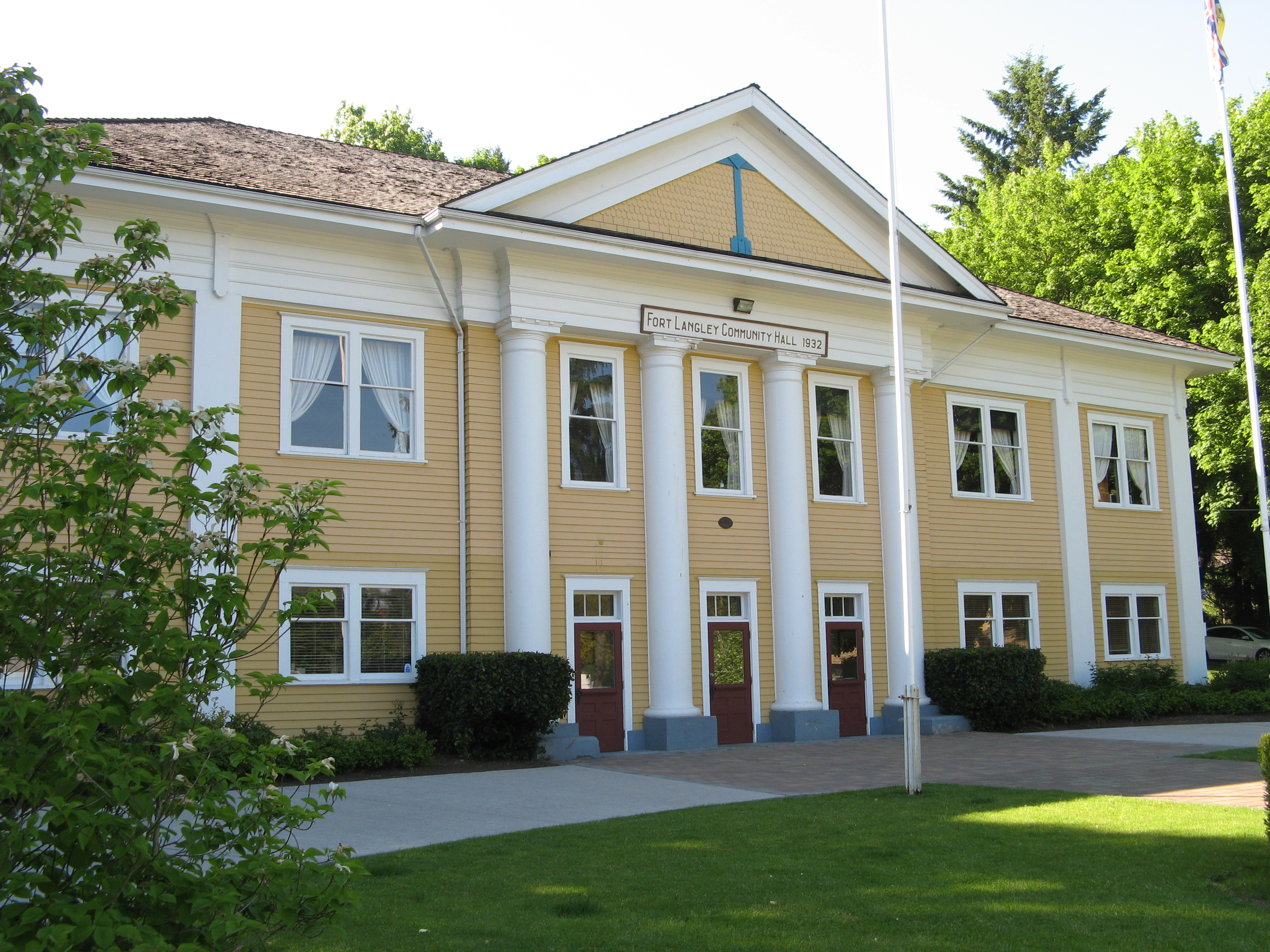 Built in 1932. Located at 9167 Glover Road, Fort Langley BC Canada.